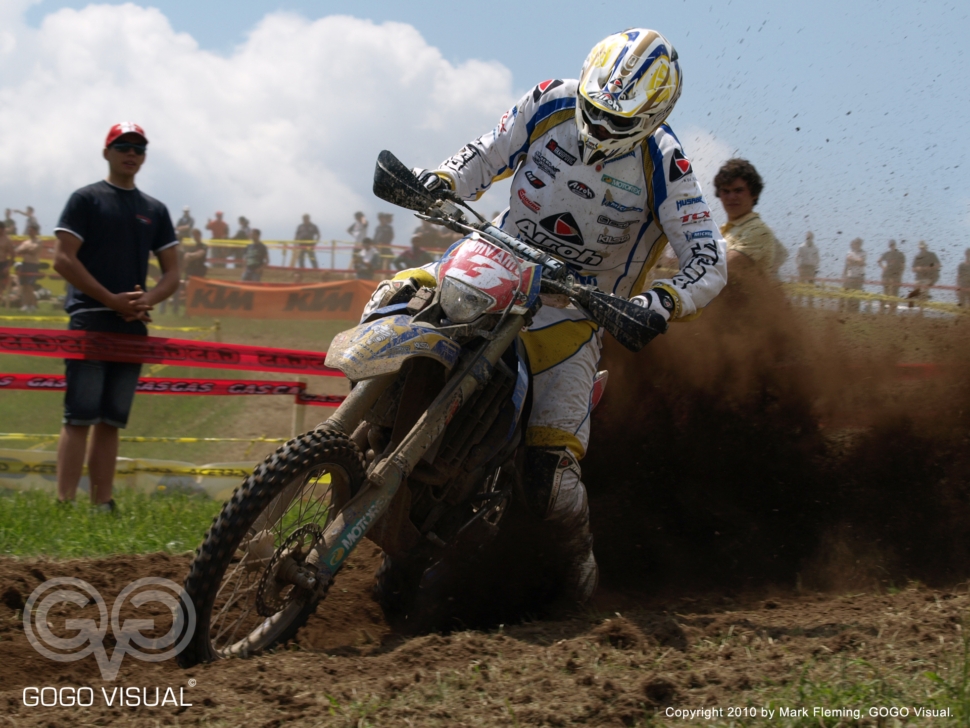 E2 - Joakim Ljunggren (SWE, Husaberg) at the 2010 MAXXIS FIM Enduro World Championship GP of Italy, in Lovere (41st Valli Bergamasche).